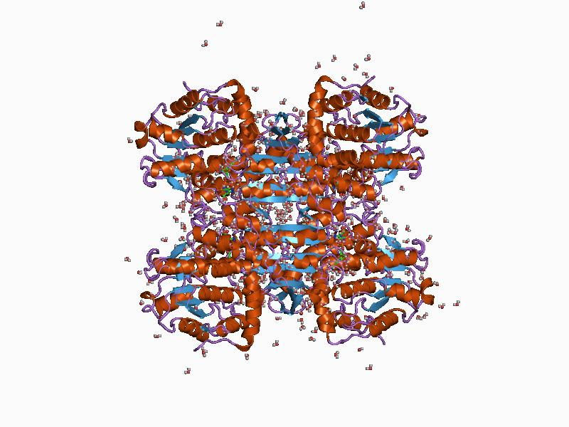 Cartoon representation of the molecular structure of protein registered with 1b3r code.